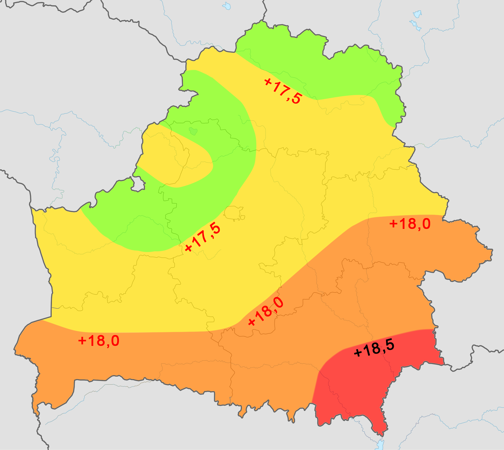 Average temperature in Belarus in July (Celsius). Data according to Belarusian Encyclopedia (Vol. 18, Part 2, Minsk, 2004, p. 41)